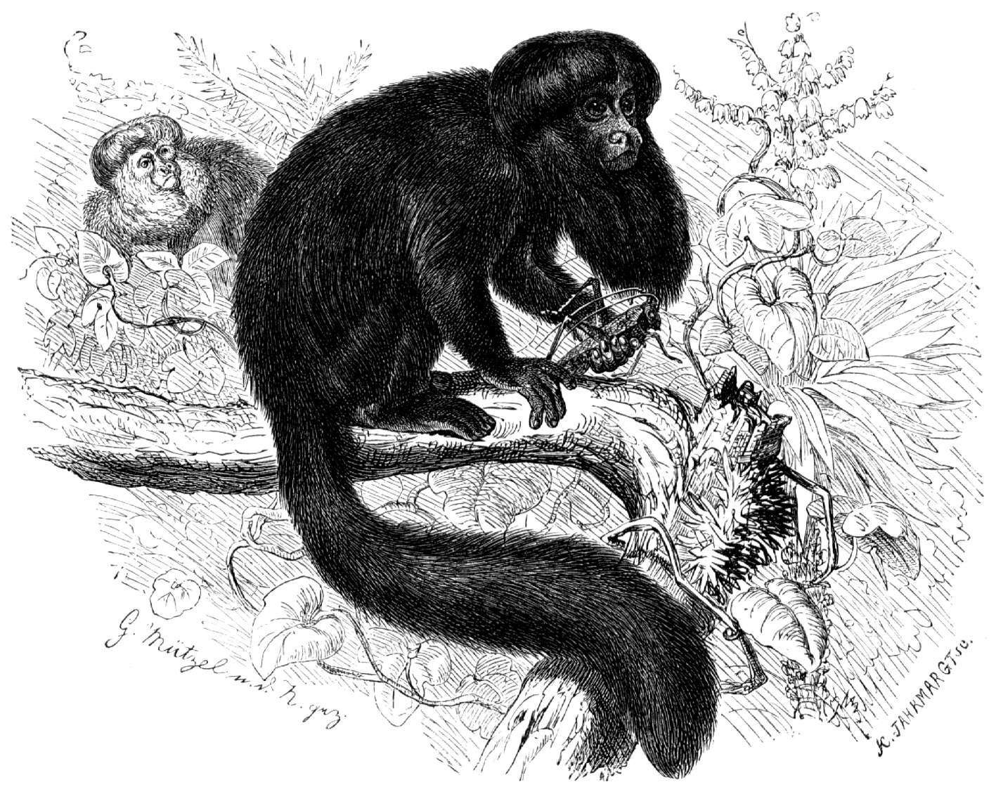 Chiropotes satanas.